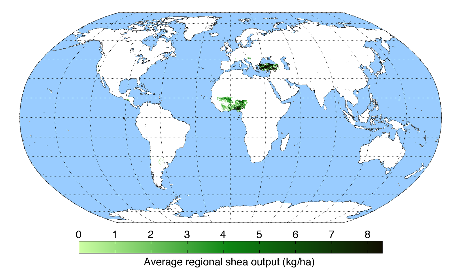 Map of shea nut production (average percentage of land used for its production times average yield in each grid cell) across the world compiled by the University of Minnesota Institute on the Environment with data from: Monfreda, C., N. Ramankutty, and J.A. Foley. 2008. Farming the planet: 2. Geographic distribution of crop areas, yields, physiological types, and net primary production in the year 2000. Global Biogeochemical Cycles 22: GB1022